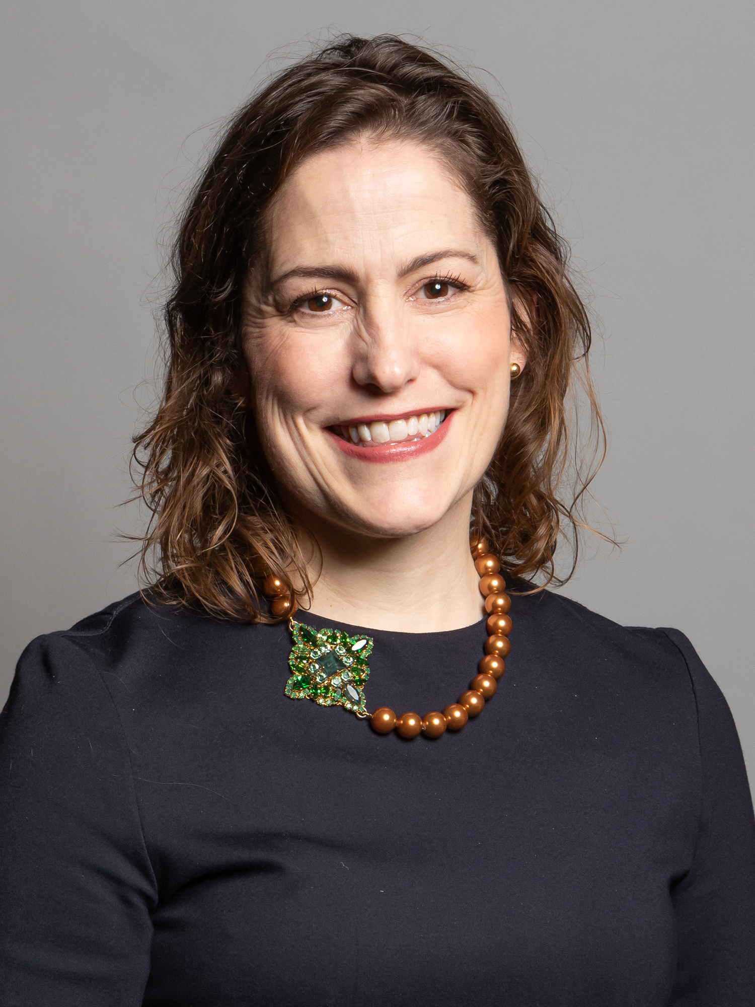 Official portrait of Victoria Atkins MP 3×4 portrait of Victoria Atkins